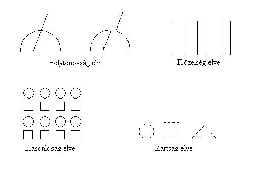 Gestalt psychology - perception